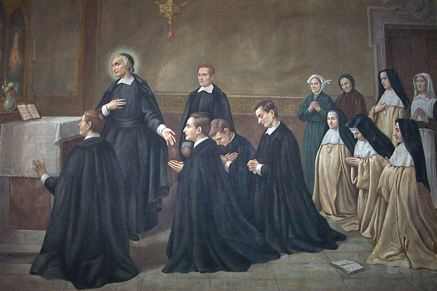 Painting with St. John Eudes with fathers and sisters of the congregations founded by himself. Painted for the ceremony of beatification of Eudes, 1909